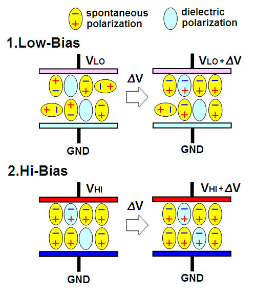 the DC Bias charactristic of ferroelectrics at ceramic capasitor.